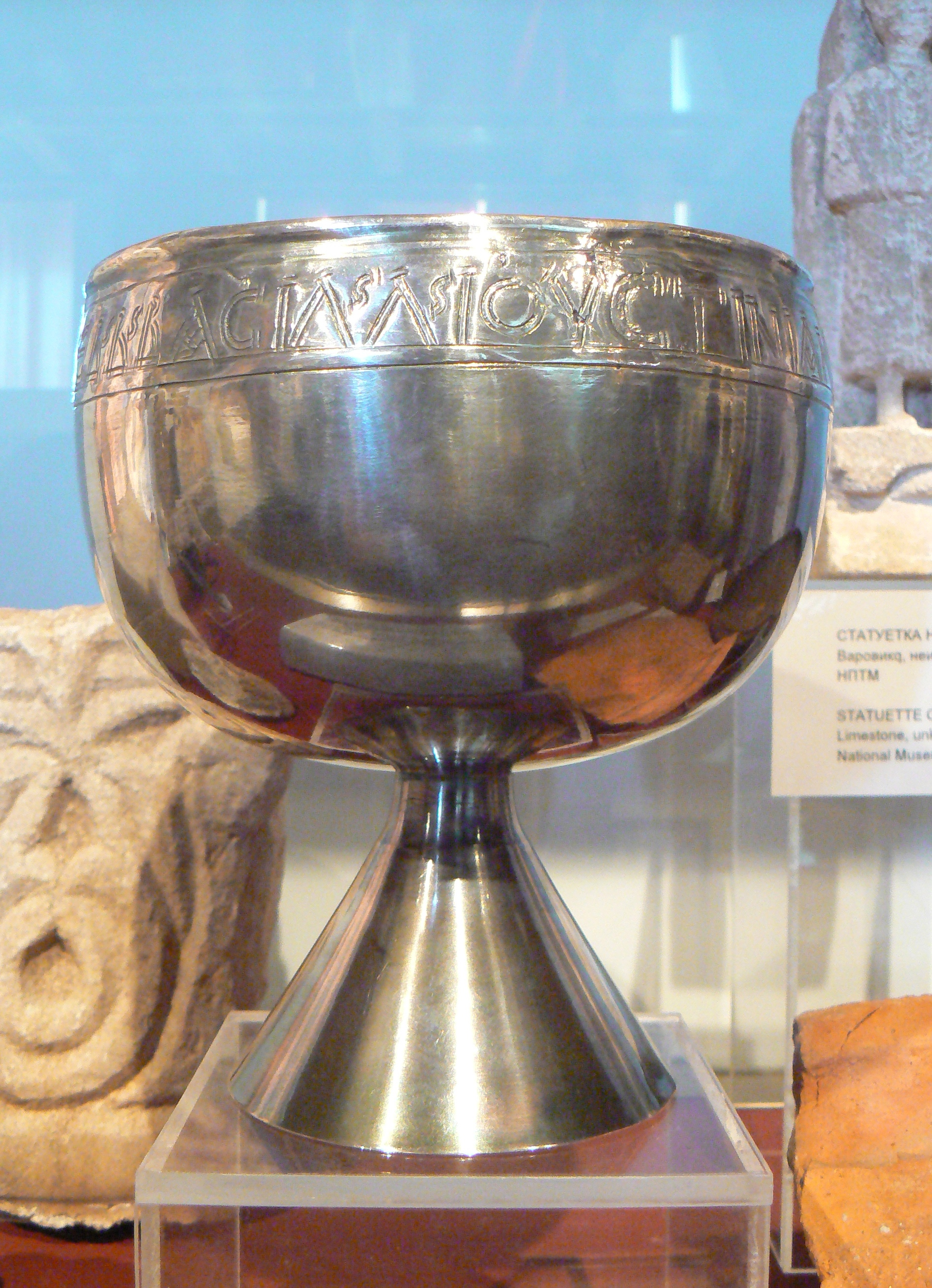 Silver chalice with donation inscription of Emperor Justinian I and Empress Theodore, 6 century AD. Found near village Nova Nadezhda, Haskovo District. Exhibit of the National History Museum of Bulgaria (replica, the original is in Haskovo History Museum)